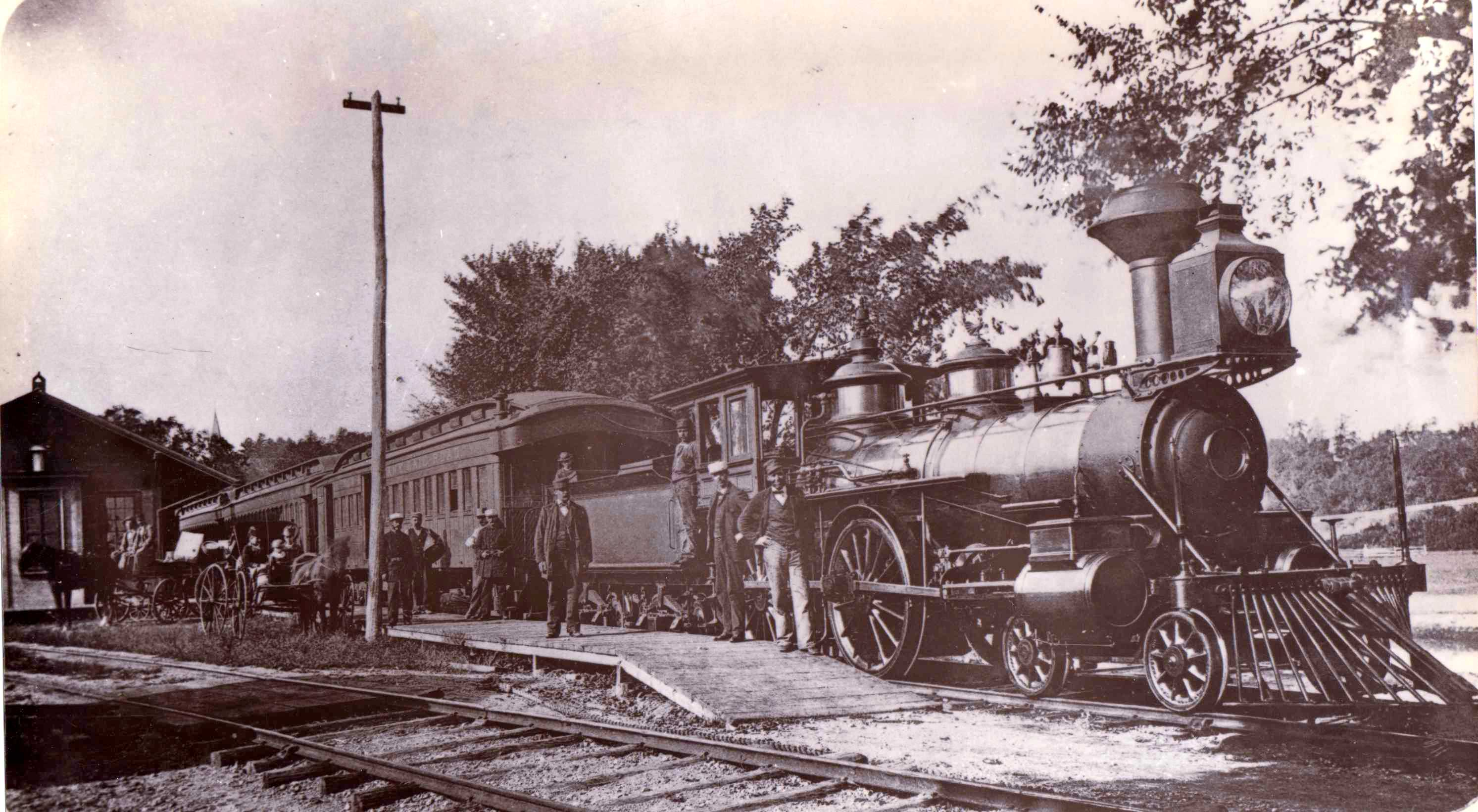 A train at the Saxonville railway station in 1880